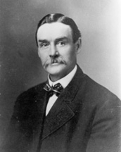 from